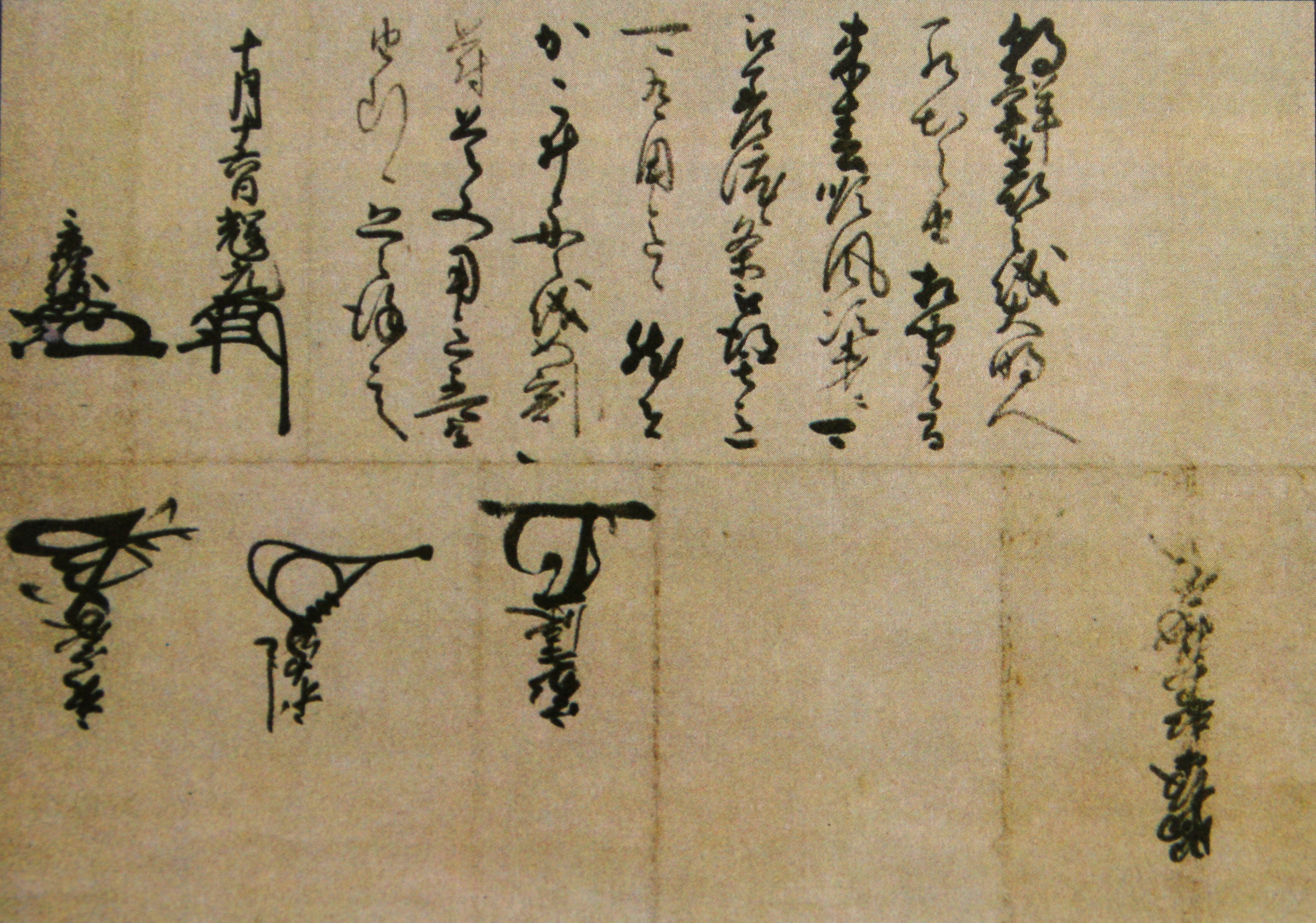 Joint letter of Toyotomi's Council of Five Elders (go-tairō). The Kaō on the first line from the left to the right belong to Uesugi Kagekatsu and Mōri Terumoto. On the second line, they belong to Ukita Hideie, Maeda Toshiie and Tokugawa Ieyasu. Please pay attention that the Kanji on the second line should be viewed from the top because the paper is folded.